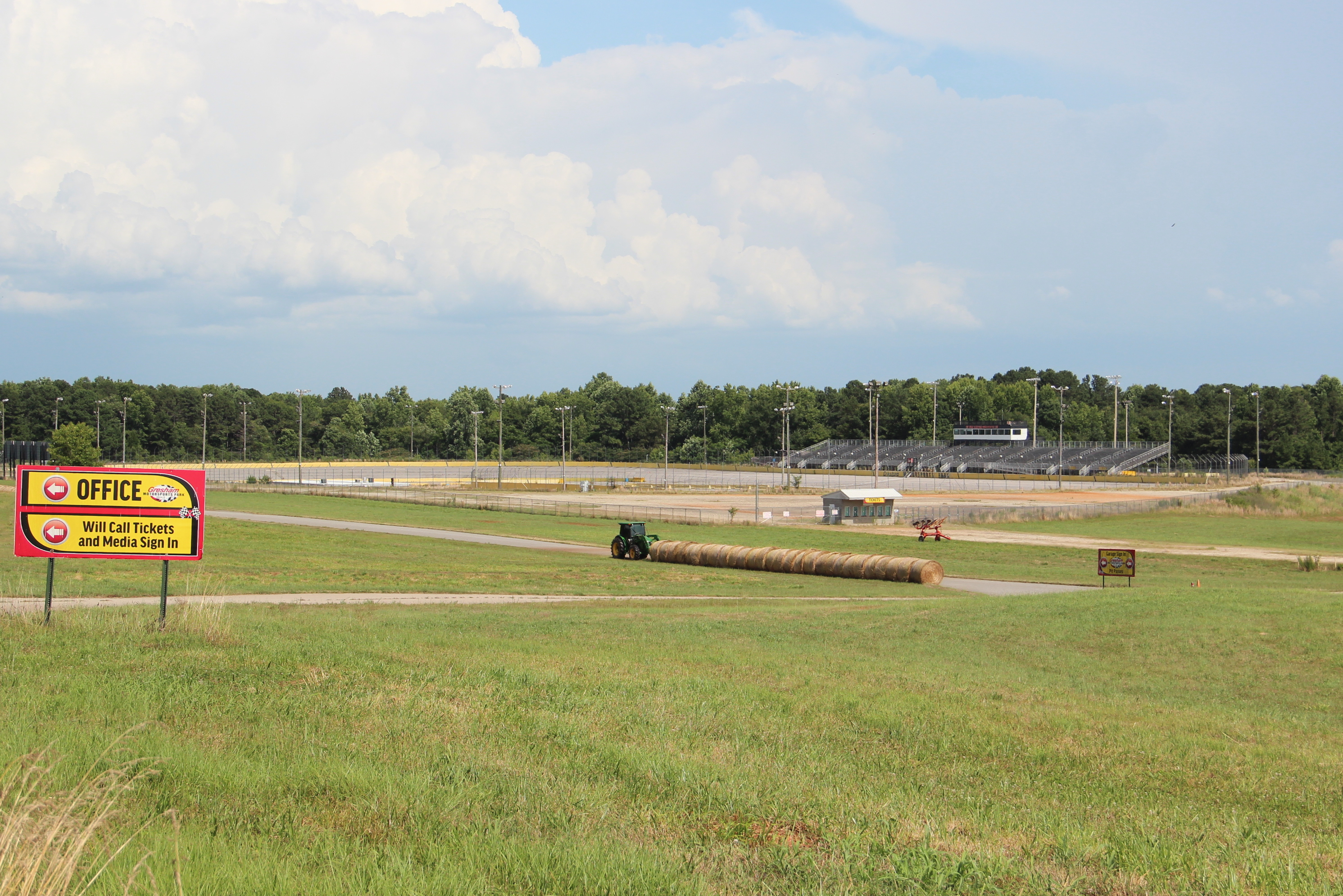 Gresham Motorsports Park in June 2019